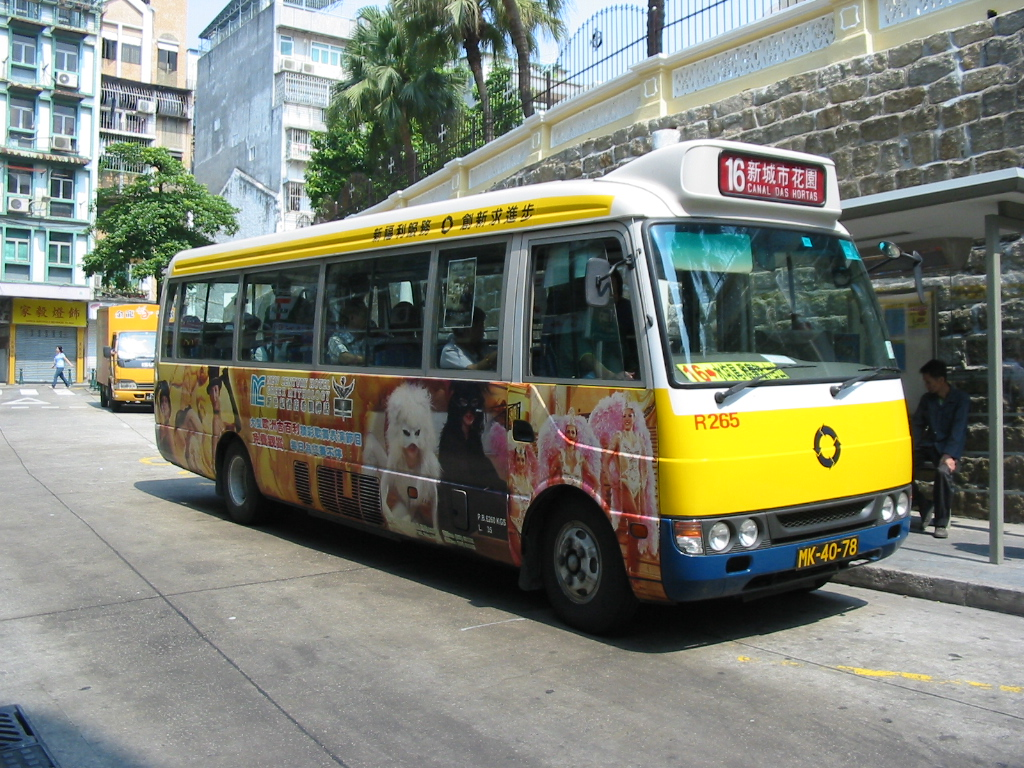 A Transmac Rosa bus running on route 16.